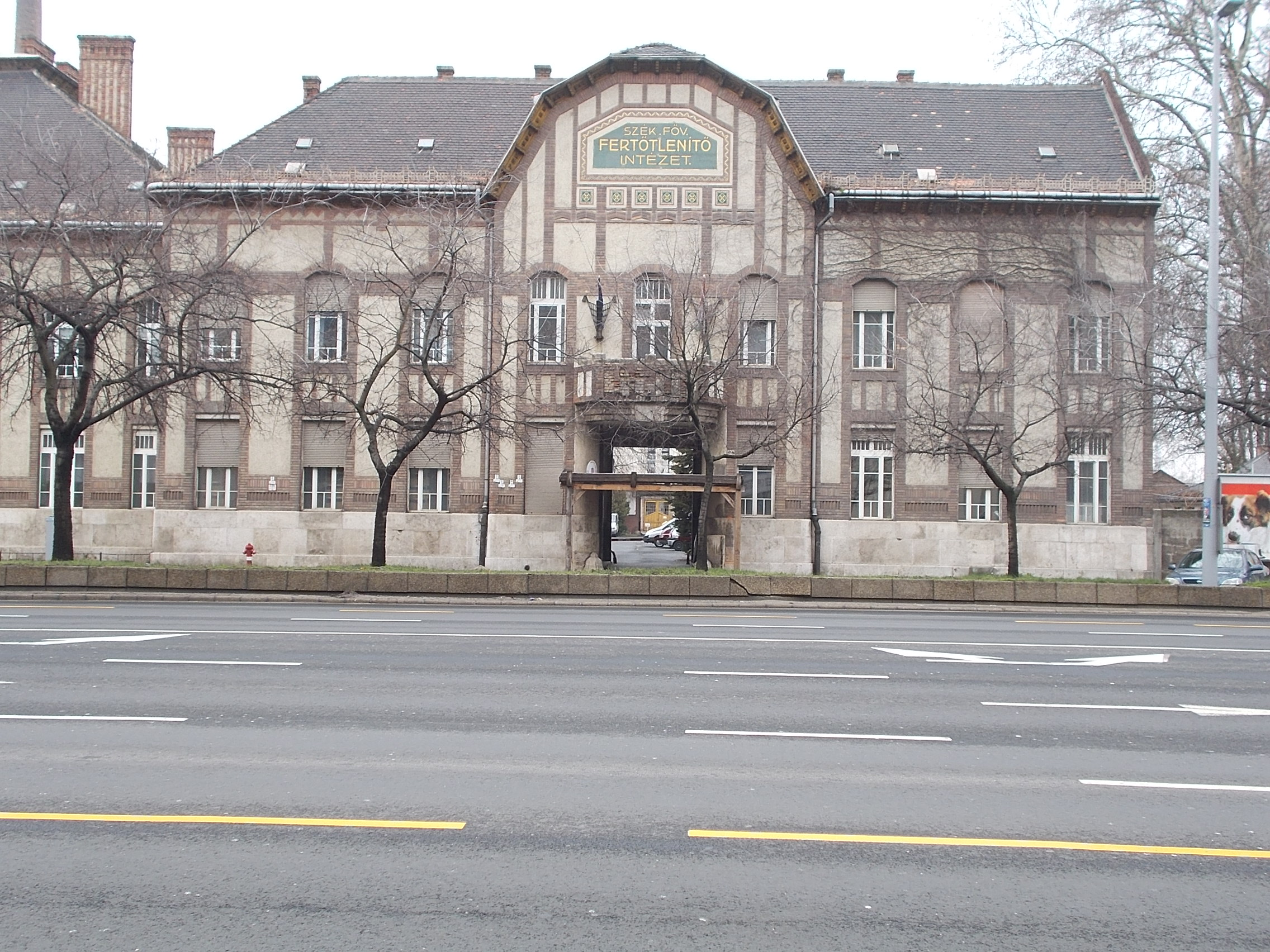 Budapest Disinfectant Institute planned by Dezső Hönid built in 1911-1913. - 174 Váci út, Vizafogó neighborhood, 13th District of Budapest.